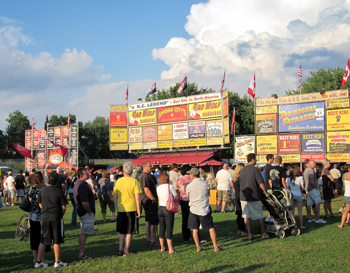 Picture of the crowd line-up at Brantford Kinsmen Annual Ribfest in August 2011. Some of the ribbers and crowd, Brantford Ribfest 2011